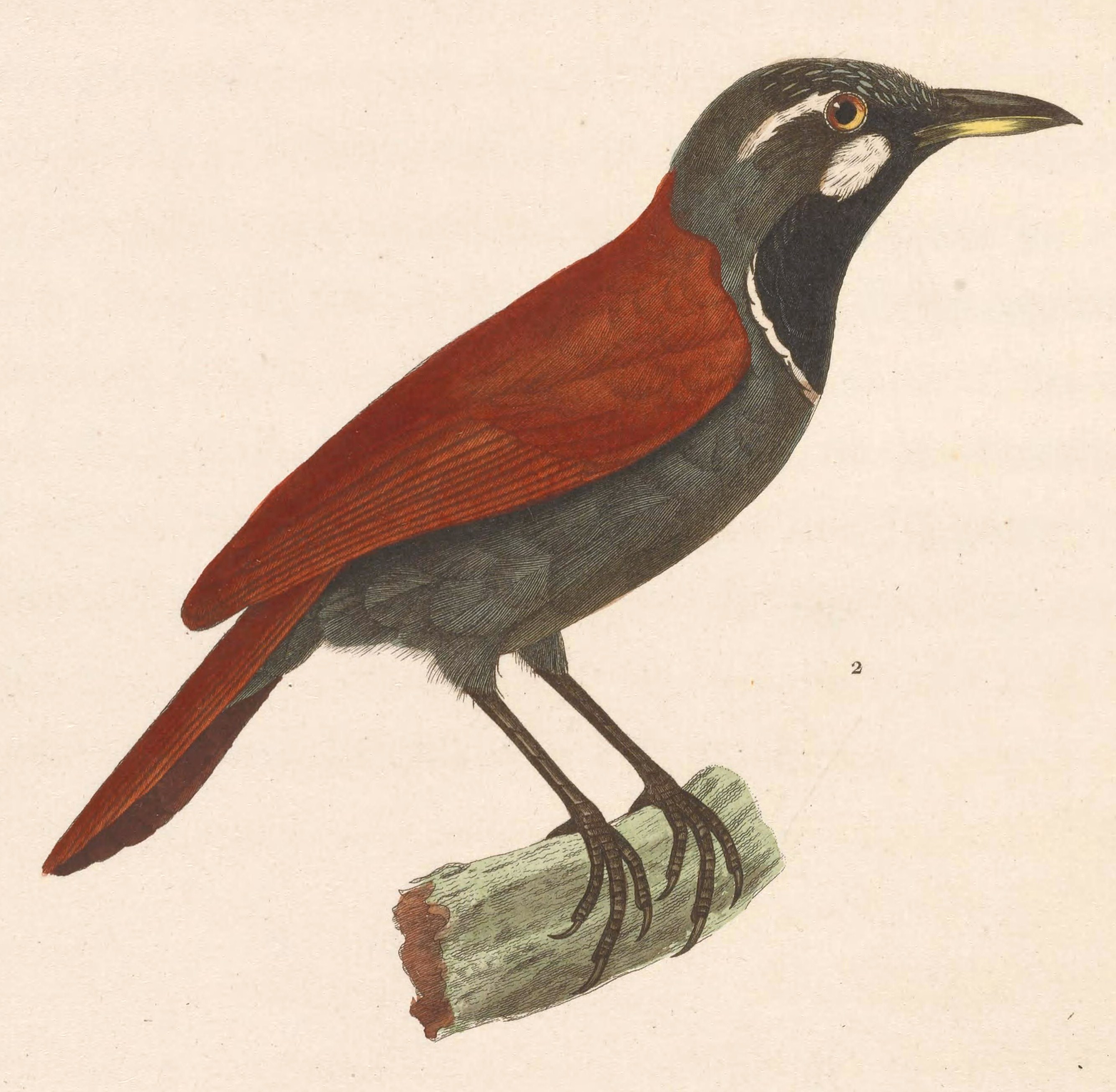 « Timalia nigricollis » = Stachyris nigricollis (Black-throated Babbler)